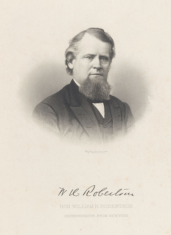 William H. Robertson (1823-1898)